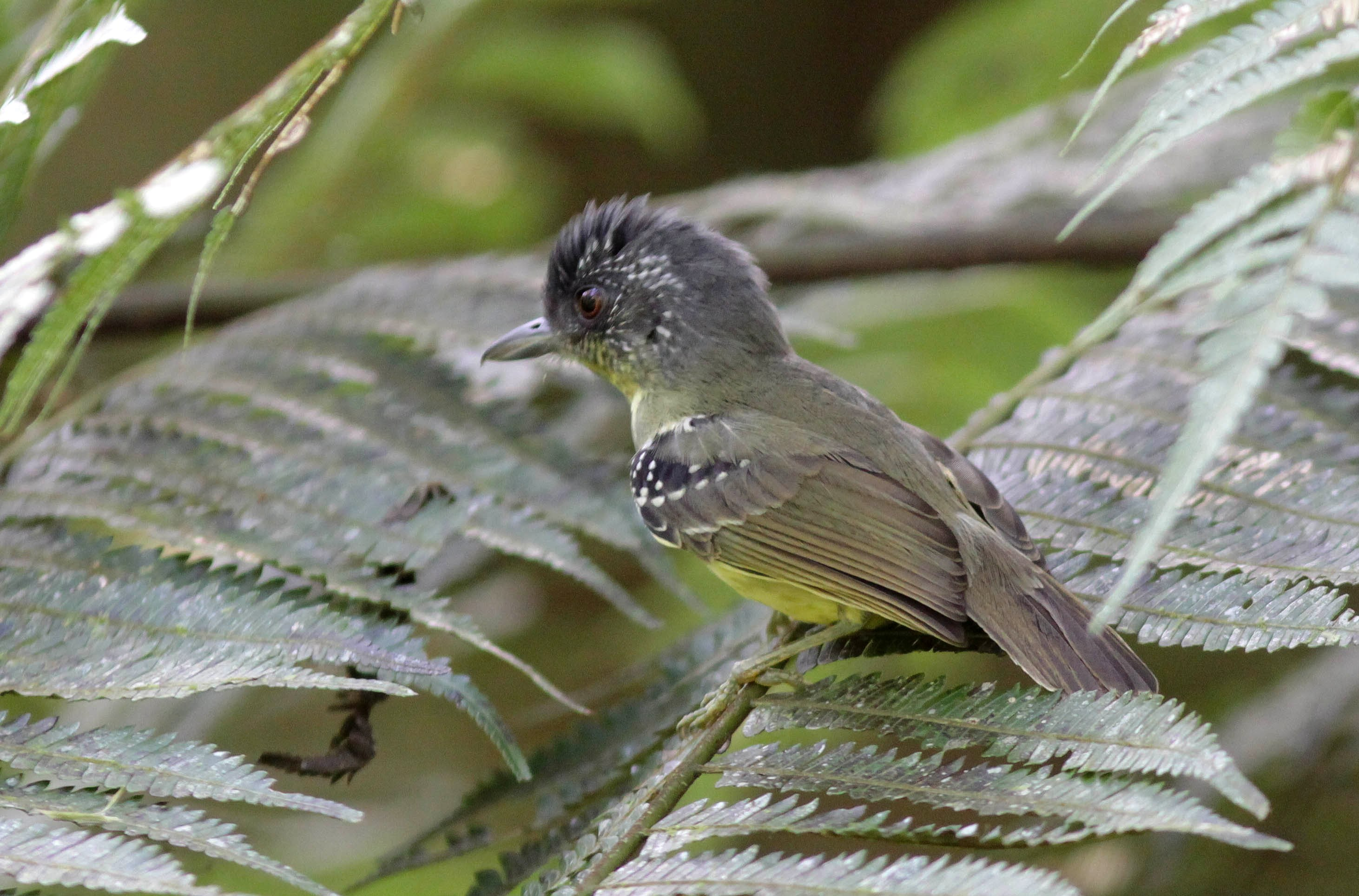 Male spot-breasted antvireo (Dysithamnus stictothorax)